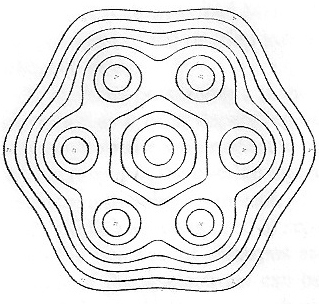 Distribution of π electrons in benzene 0.5 au above the plane of the ring where the density reaches its maximum value π